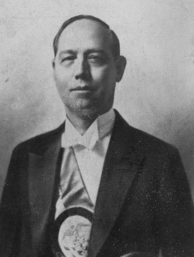 Enrique Olaya Herrera, president of COlombia from 1930 to 1934.